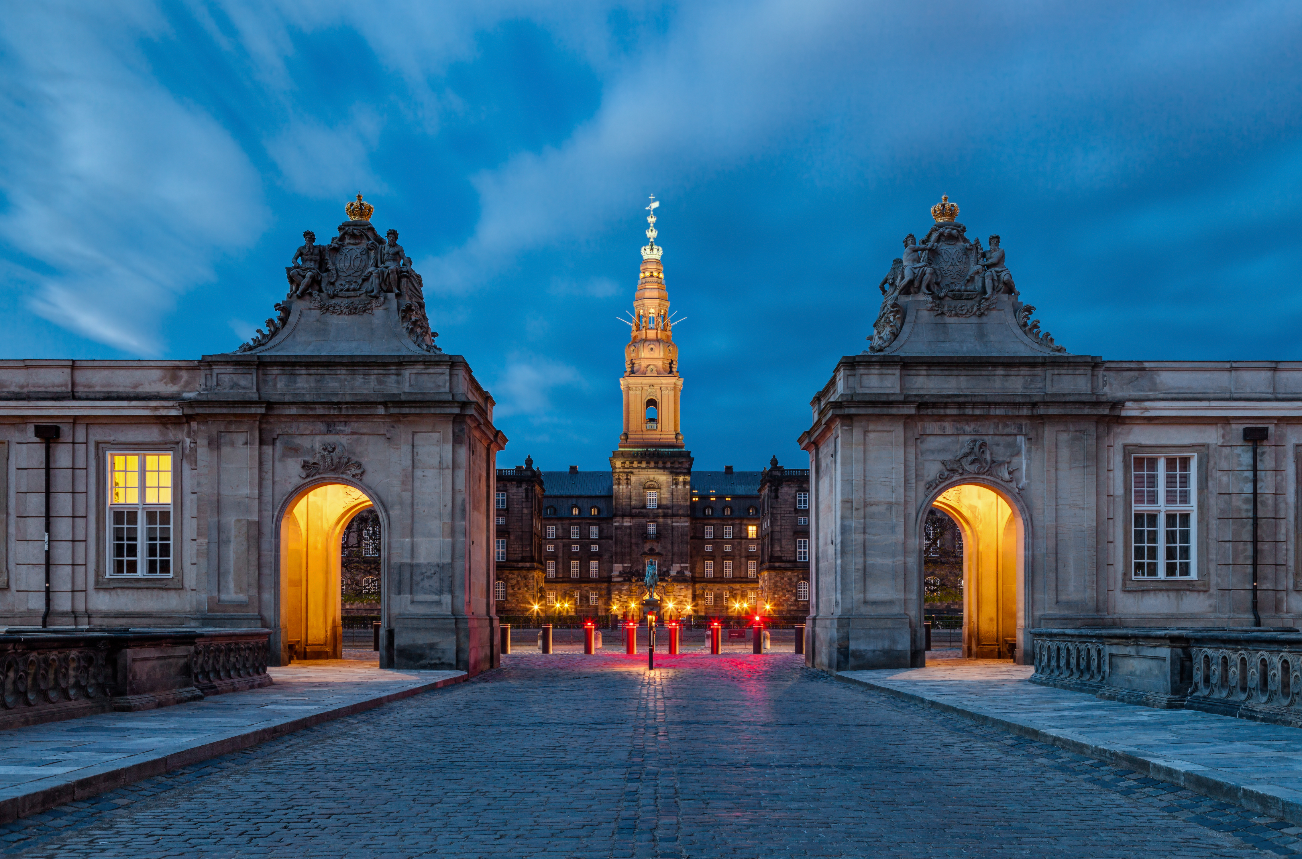 The Christiansborg Palace, Copenhagen, Denmark.